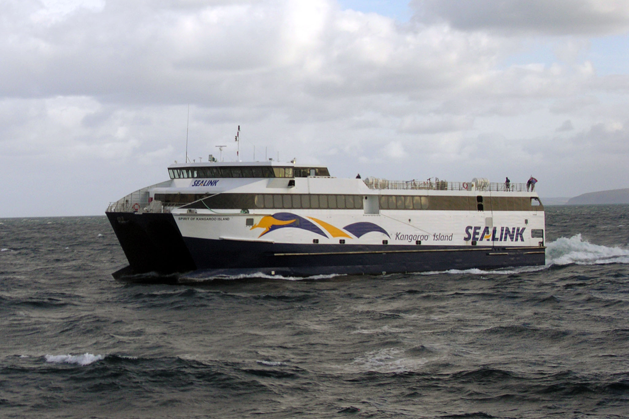 Sealion 2000 from SeaLink